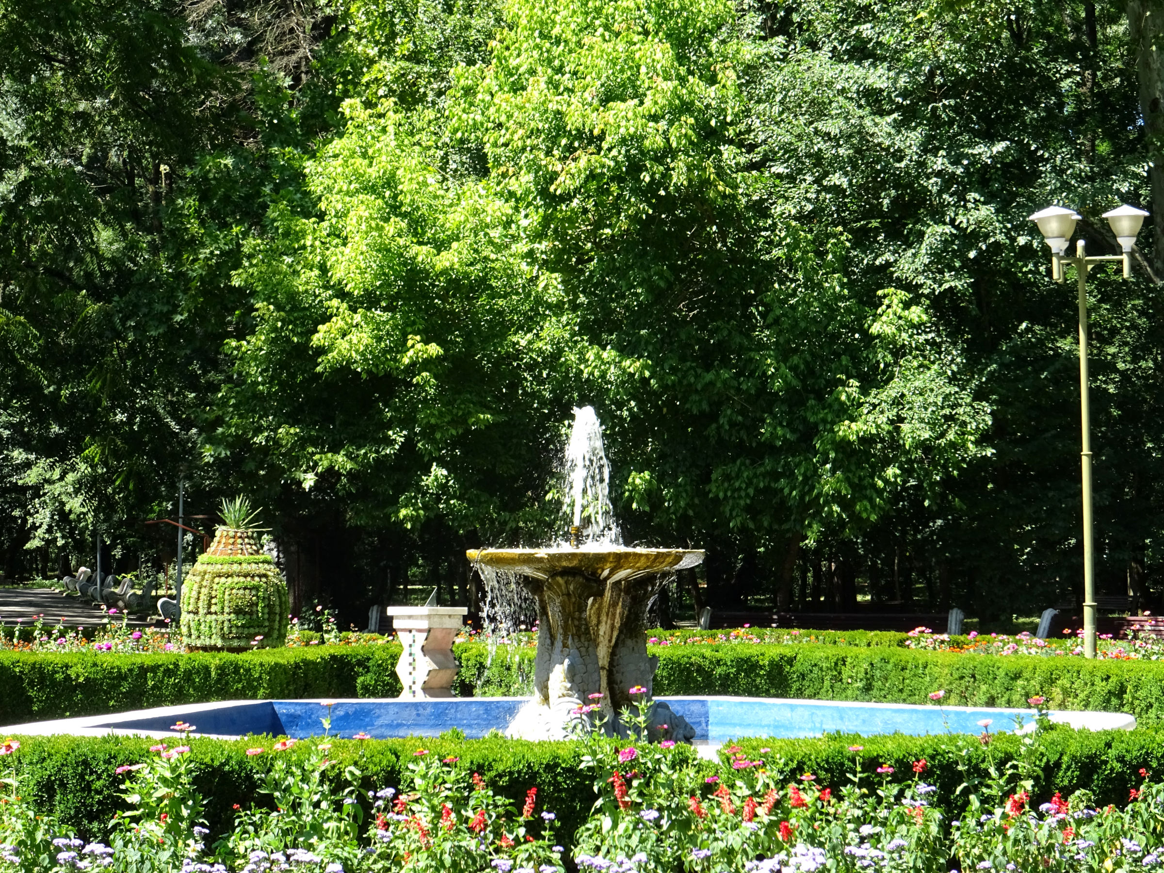 Fountain and plants in Buzias central park